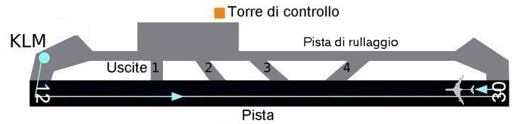 Tenerife Disaster - Italian KLM's planned "backtaxi"